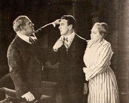 Still from the American film The Great Accident (1920) with Andrew Robson, Tom Moore, and Lillian Langdon, on page 4628 of the June 5, 1920 Motion Picture News.